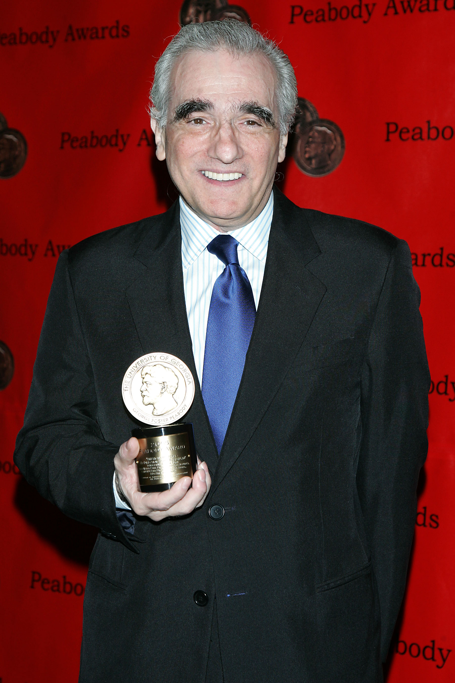 65th Annual Peabody Awards Luncheon Waldorf=Astoria Hotel New York, NY USA June 5, 2006